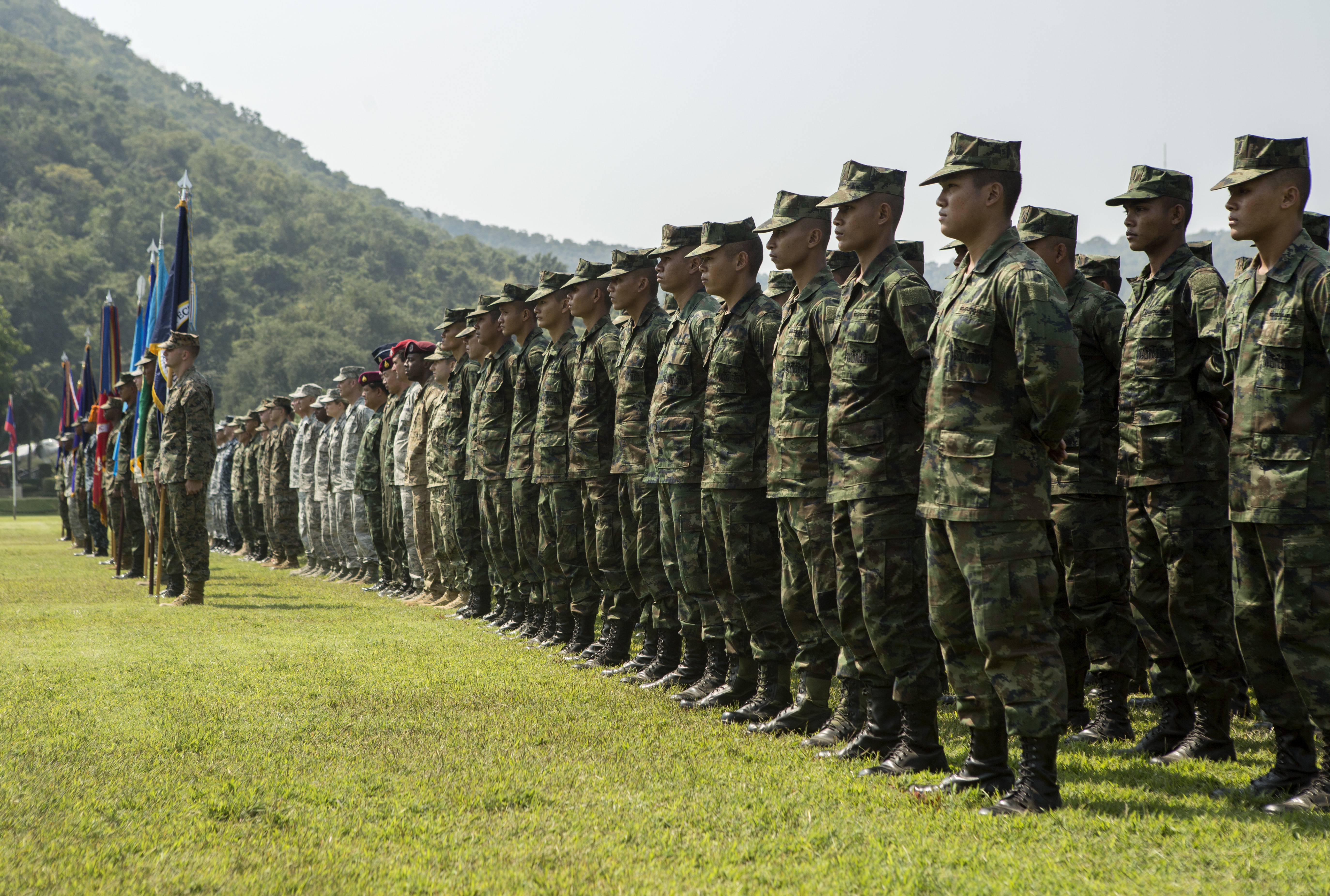 The armed forces participating in Cobra Gold 16 stand side by side in formation to represent cooperation and commitment among partner nations in order to achieve effective solutions to common challenges during the opening ceremony at Sattahip Naval Base, Thailand February 9, 2016. Working together, the partnering nations will increase the capacity to plan and conduct combined task force events. During Cobra Gold the participants will also improve the quality of life, as well as the general health and welfare of civilian residents in the regional area. Unit: III Marine Expeditionary Force / Marine Corps Installations Pacific